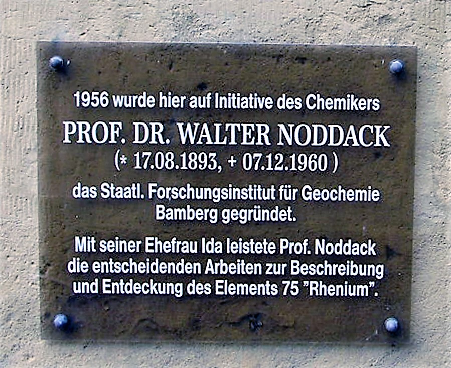 Plaque at house where Forschungsinstitut Geochemie in Bamberg was founded initated by Walter Noddack